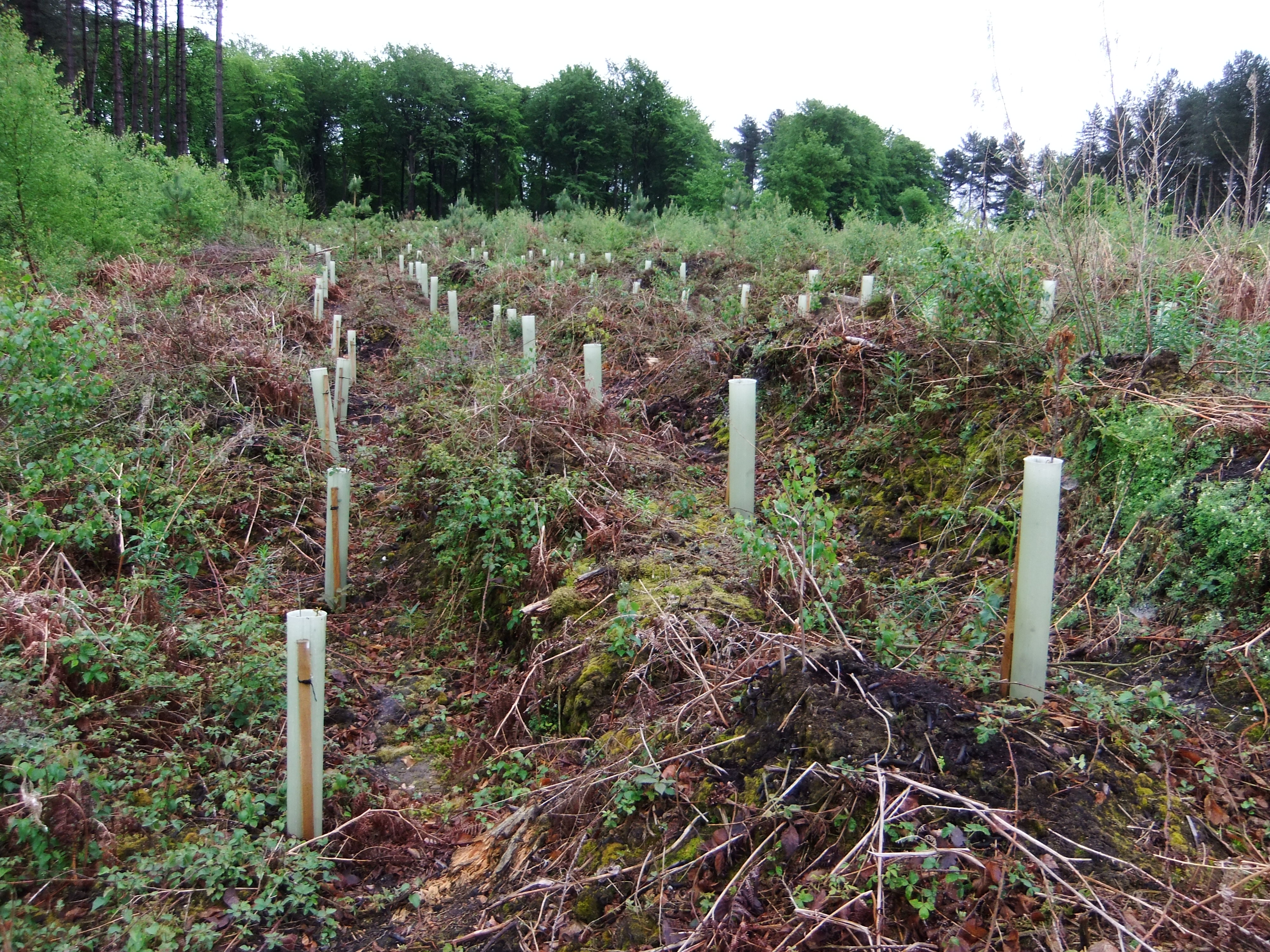 Photo of sapling plantation taken at Delamere Forest, Cheshire, England.